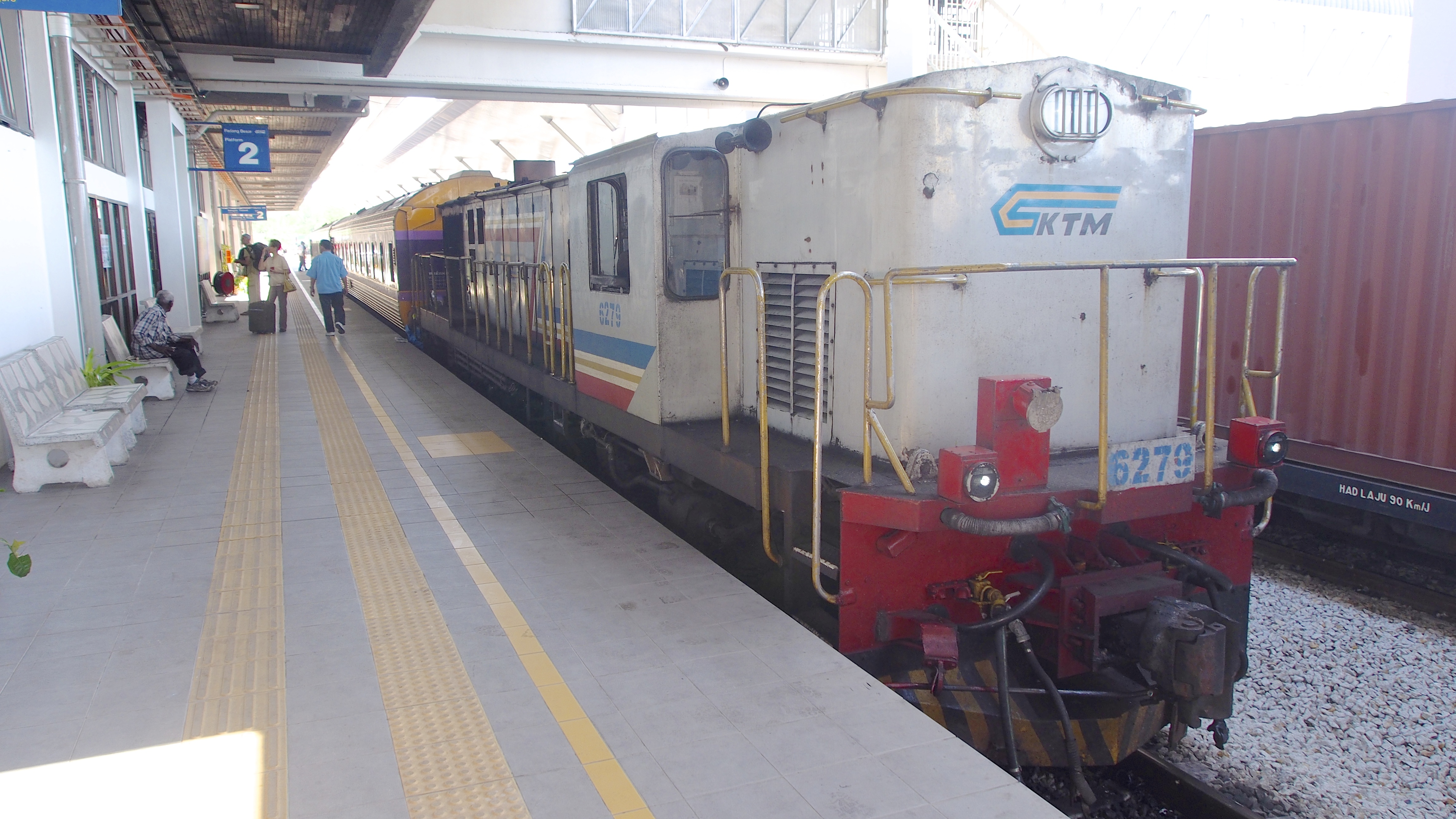 Two 2nd class sleepers from Bangkok operate thru to Butterworth Malaysia. Malaysian customs take place at Padang Besar. YDM-4 Locomotive built in India powered by an ALCo 251 engine